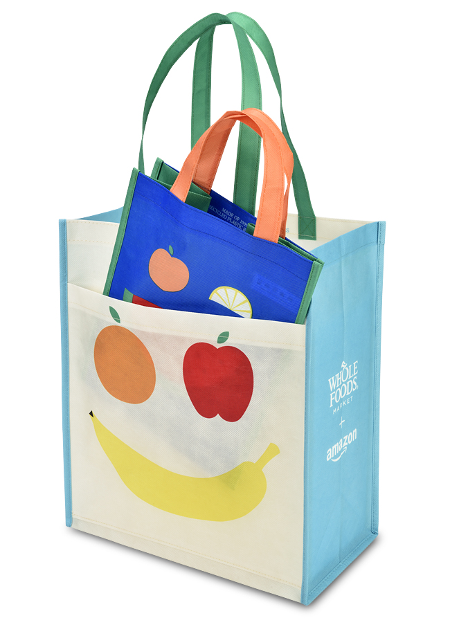 Reusable bags made by KeepCool USA and sold by Whole Foods Market in spring 2018. The bags are a style known as the Kangaroo Tote, with a Whole Foods Market design.